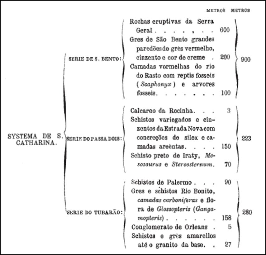 Paraná Basin: Stratigraphic column defined by White in Santa Catarina State, Brazil.